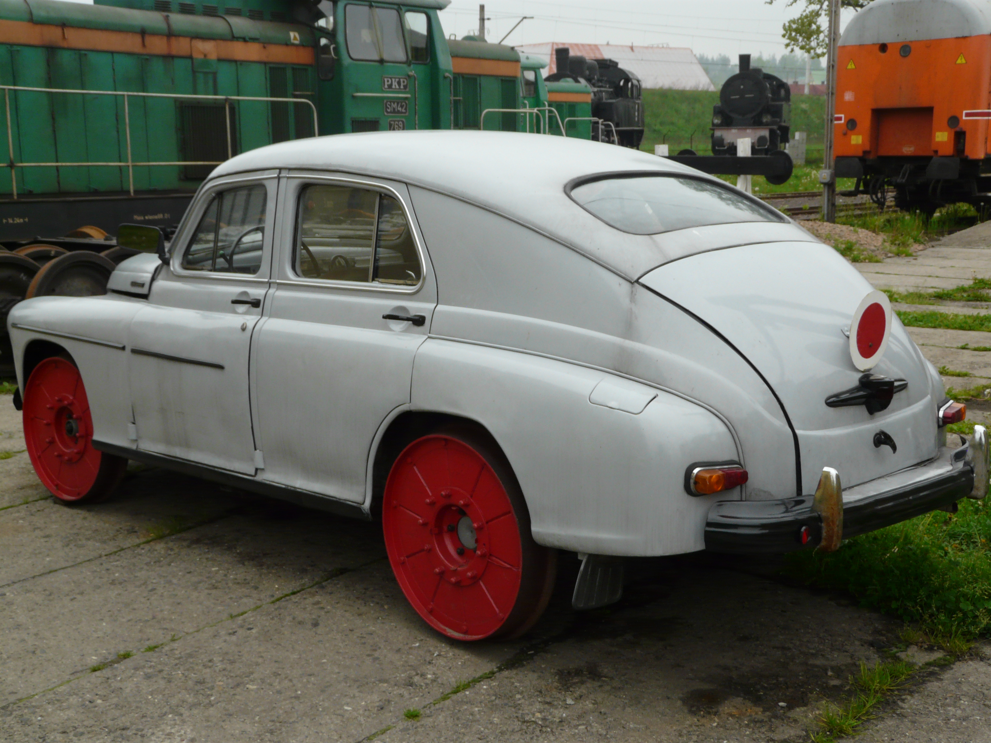 Polish FSO Warszawa 201 or 202 car in a rail-riding draisine variant, in Chabówka Rolling-Stock Heritage Park, Poland (railway designation M20 is erroneous)